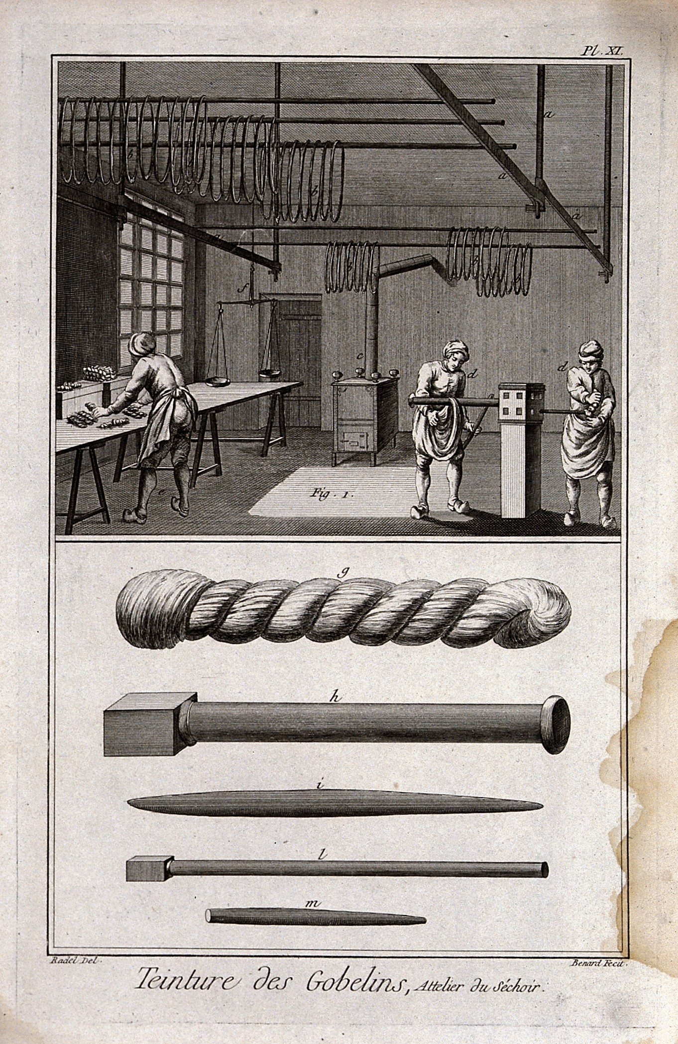 Textiles: tapestry dyeing, three workmen in a drying room (top), equipment (below). Engraving by R. Benard after Radel. Iconographic Collections Keywords: Radel; Robert Bénard